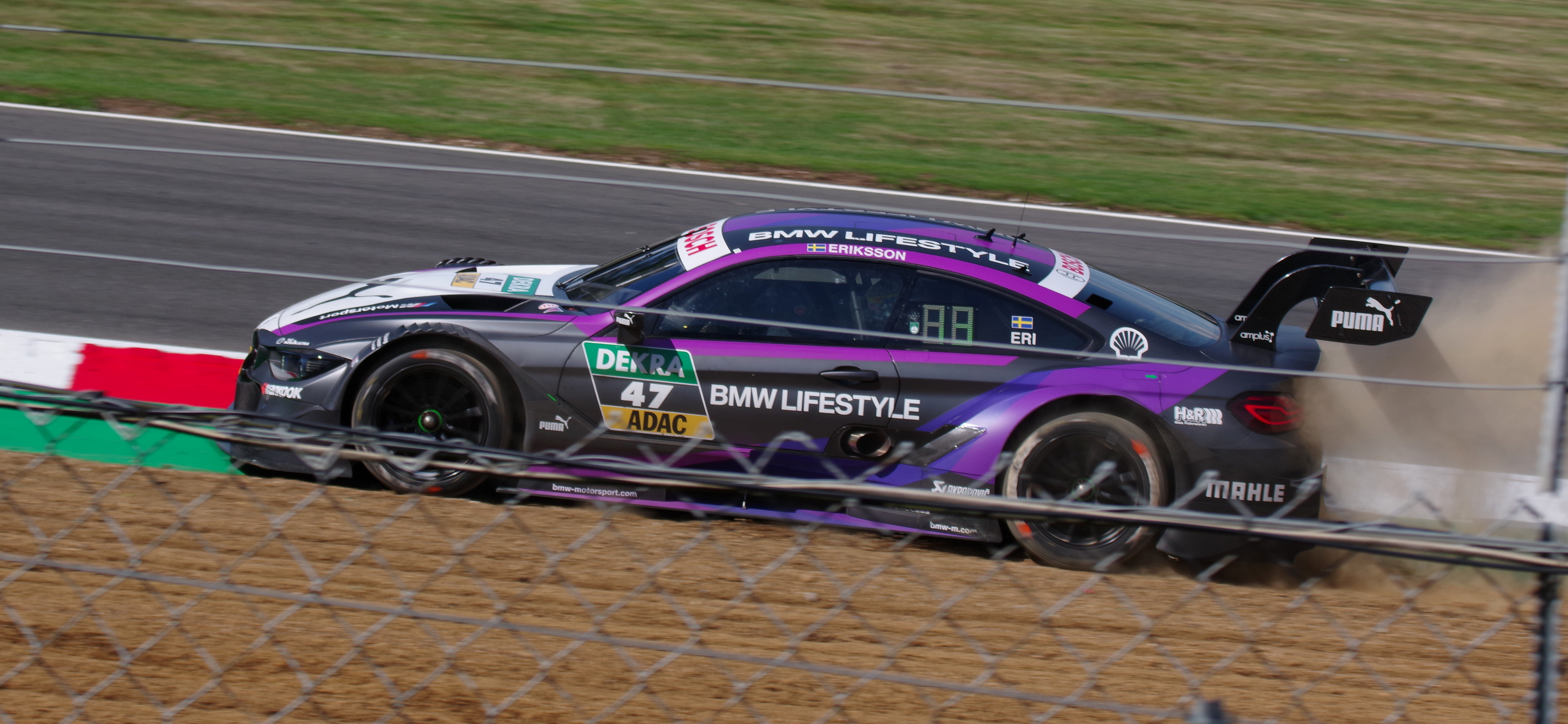 2018 Deutsche Tourenwagen Masters, Brands Hatch.